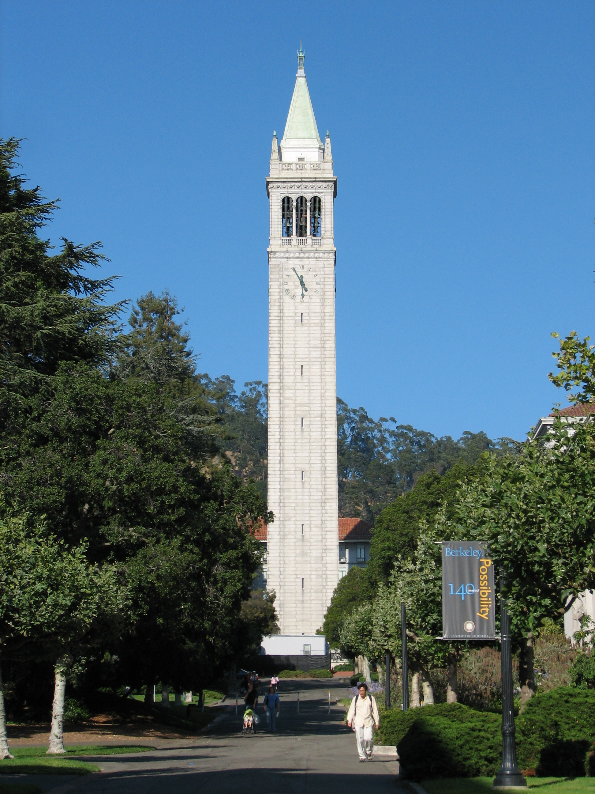 Sather Tower at the University of California, Berkeley